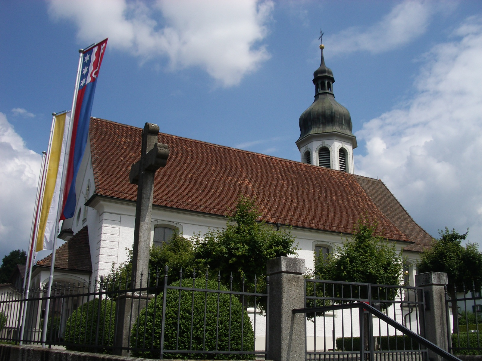 Jonen AG, Switzerland